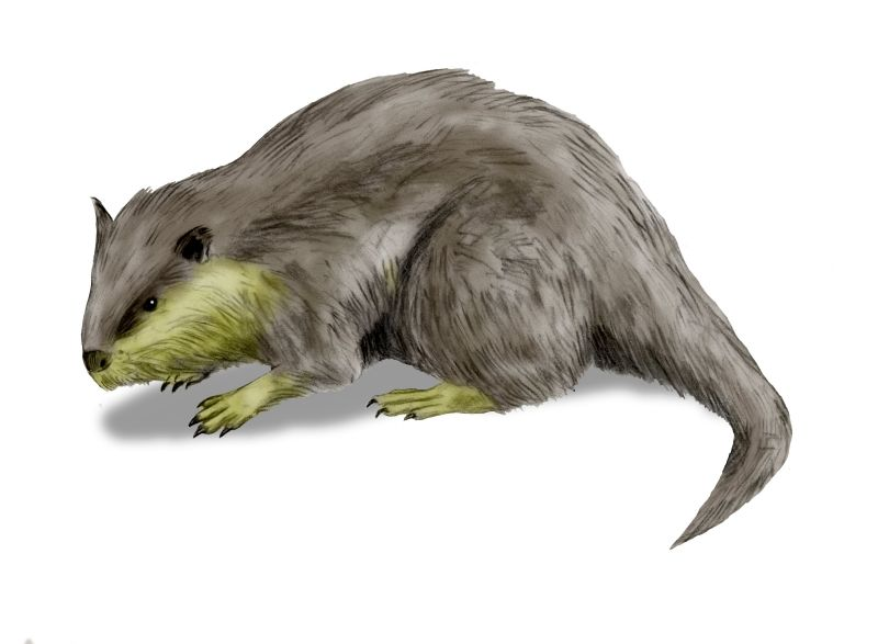 Palaeocastor peninsulatus, a land beaver from the Late Oligocene of North America. The things about this beaver is that it built corkscrew-shaped burrows. It stayed in these burrows and came up to eat.